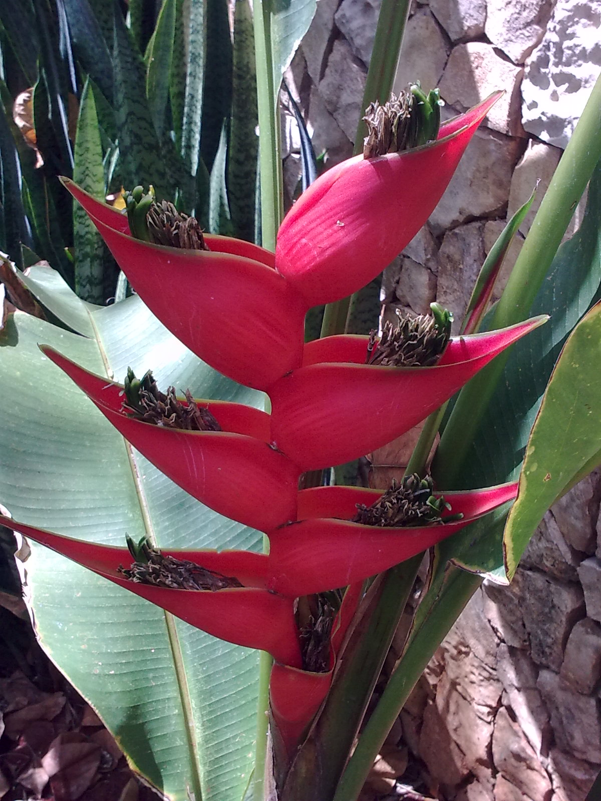 Heliconia bihai, Uxmal, Mexico